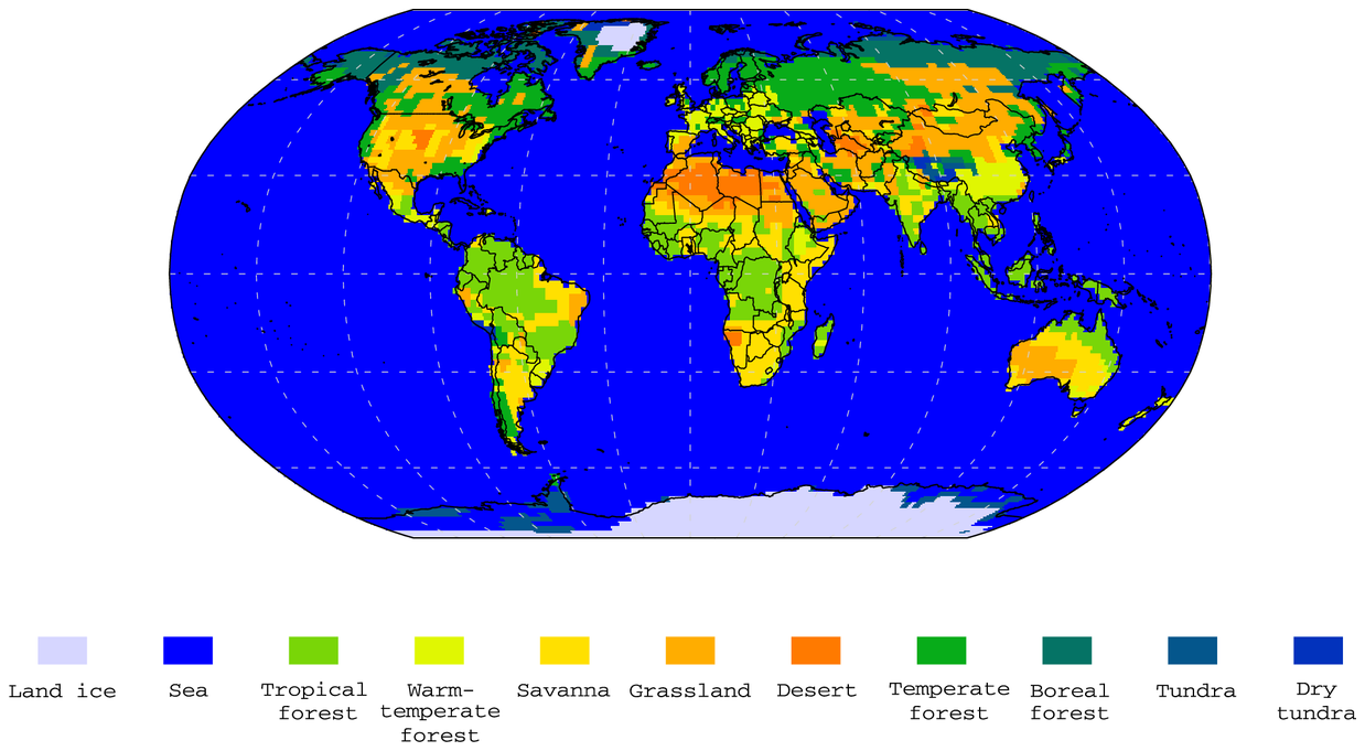 Pliocene megabiomes. Data